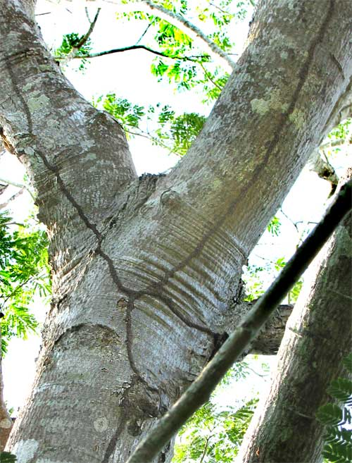 To find food these termites commute from their nest to the forest floor. They build tunnels to protect themselves.